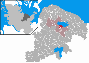 This map shows the area of the Gemeinde (municipality) Selent in the Kreis (district) Plön, Schleswig-Holstein, Germany.